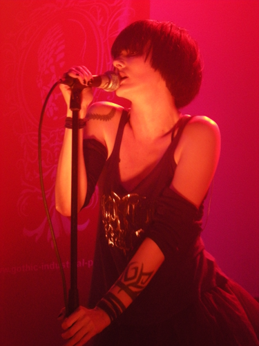 Tying Tiffany (Italian musician) during the «16 Jahre Gothic Industrial Party» — live concert at Zeche Carl, Essen, Germany.